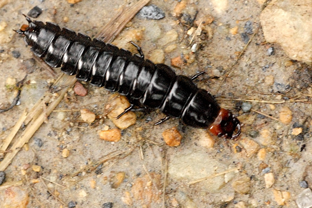 Picture taken in Commanster, Belgian High Ardennes . Species: Carabus monilis larva